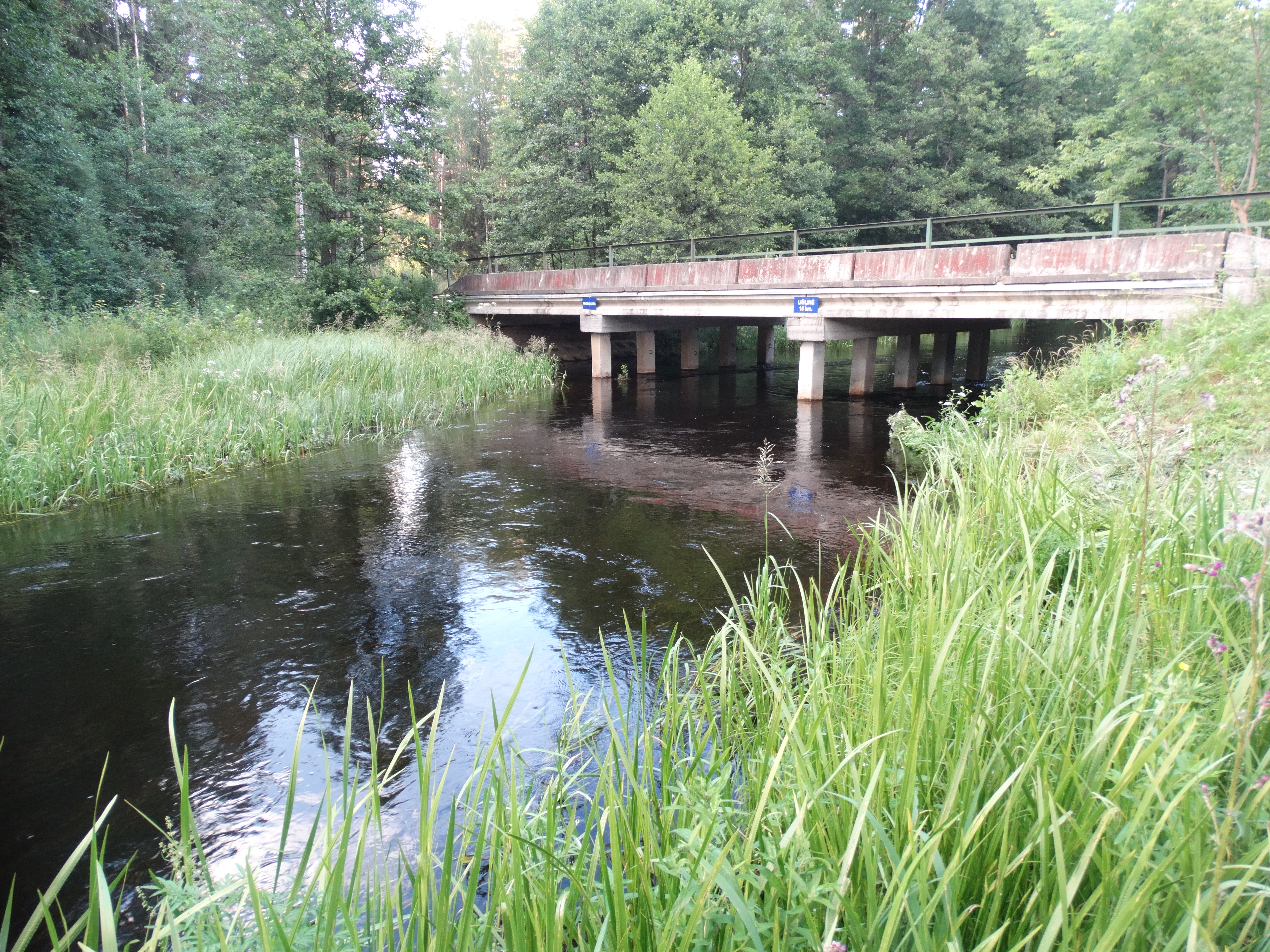 Lakaja River, Švenčionys district, Lithuania